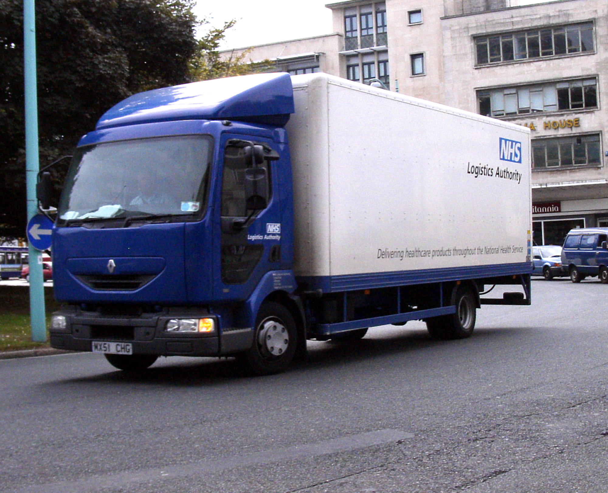 20-Sep-02 PlymouthNHS Logistics